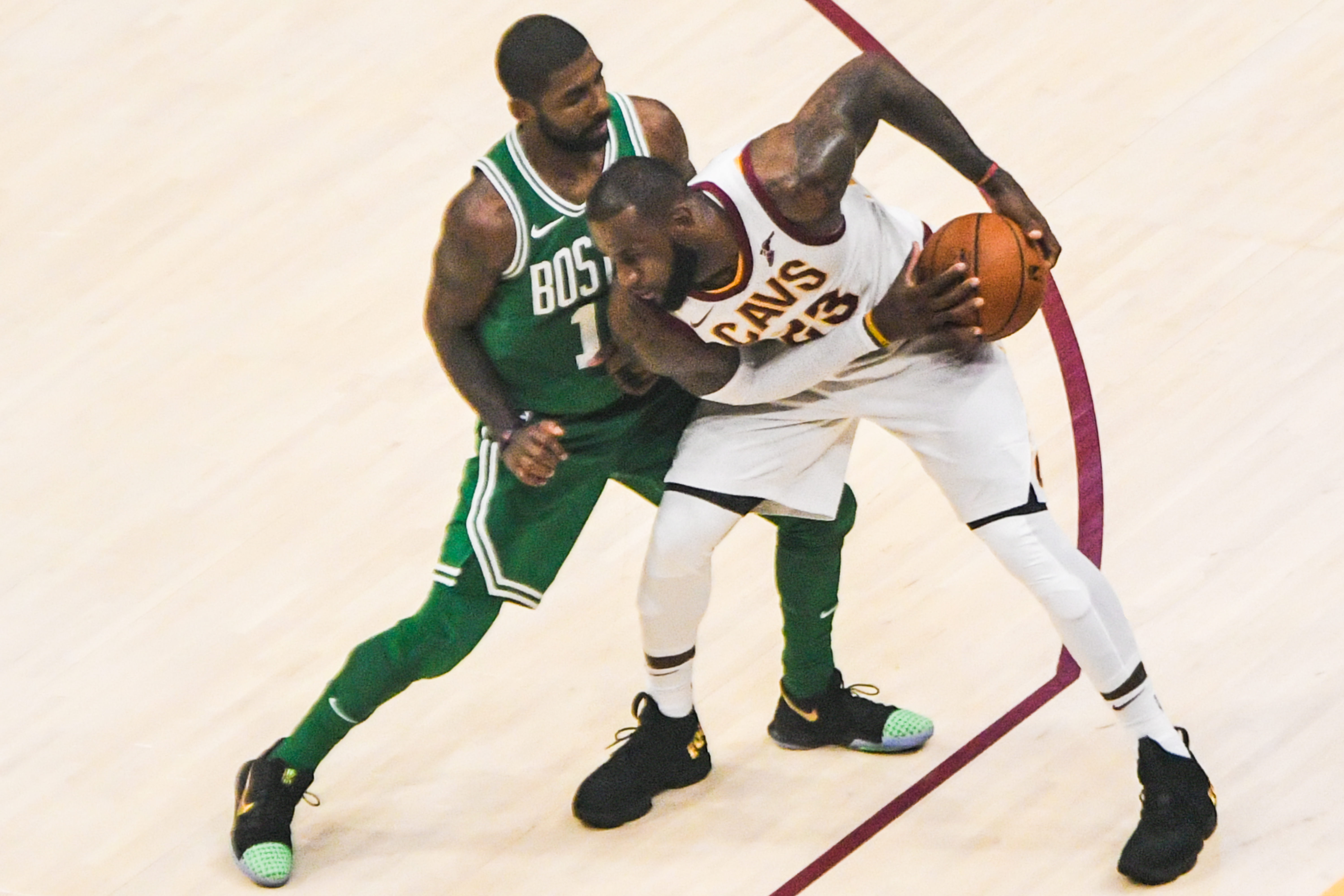 LeBron James vs. Kyrie Irving